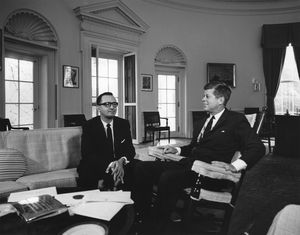 President John F. Kennedy (in rocking chair) meets with newly-appointed Ambassador of Costa Rica, Gonzalo J. Facio Segreda; the ambassador presented his credentials to President Kennedy. Oval Office, White House, Washington, D.C.